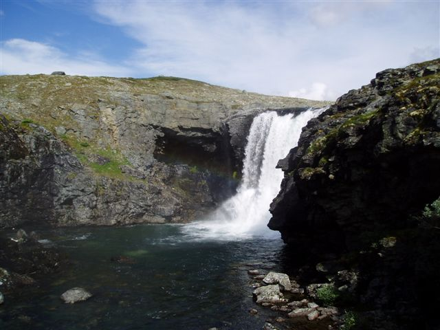 Pihtsusköngäs waterfall in Enontekiö, Finland